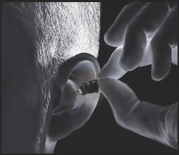 image of a Earpiece micro (miniature earphone)